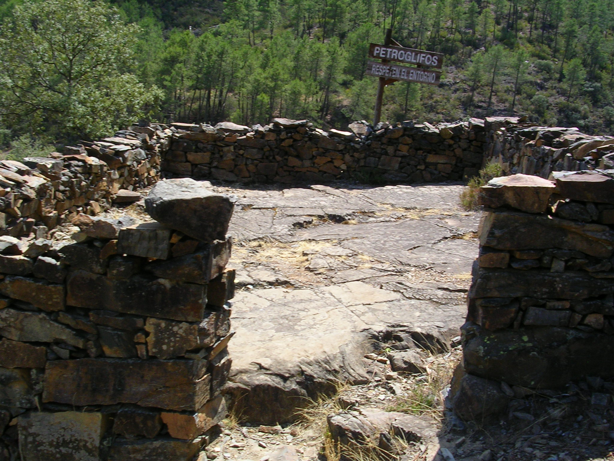 Petroglifos in Las Hurdes, Extremadura, Spain